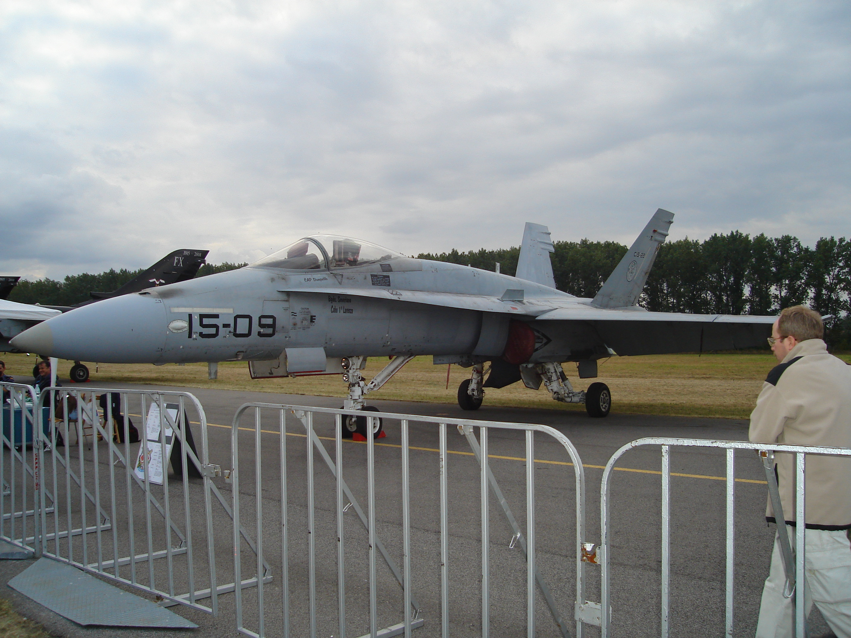 Picture of Spanish F/A-18A+ Hornet (EF-18A+), Radom Air Show 2007